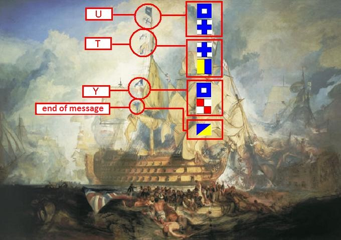 Turner's painting of HMS Victory at Trafalgar, with the famous signal flags highlighted. In English.